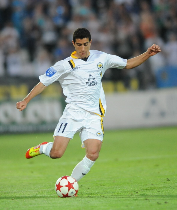 Gevorg Ghazaryan is an Armenian football player